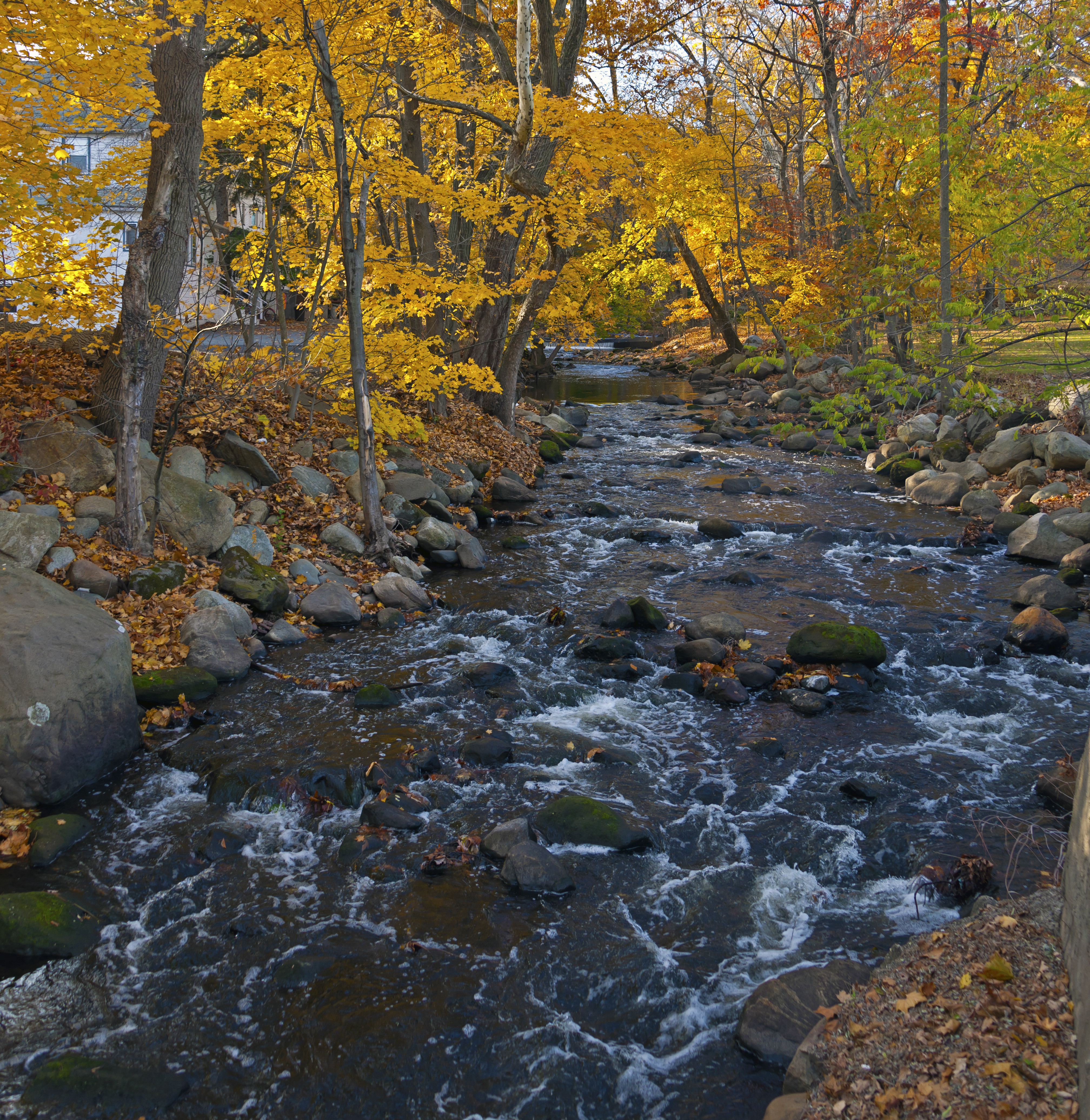 Ho-Ho-Kus Brook near downtown Ho-Ho-Kus, NJ, USA, and the train station.